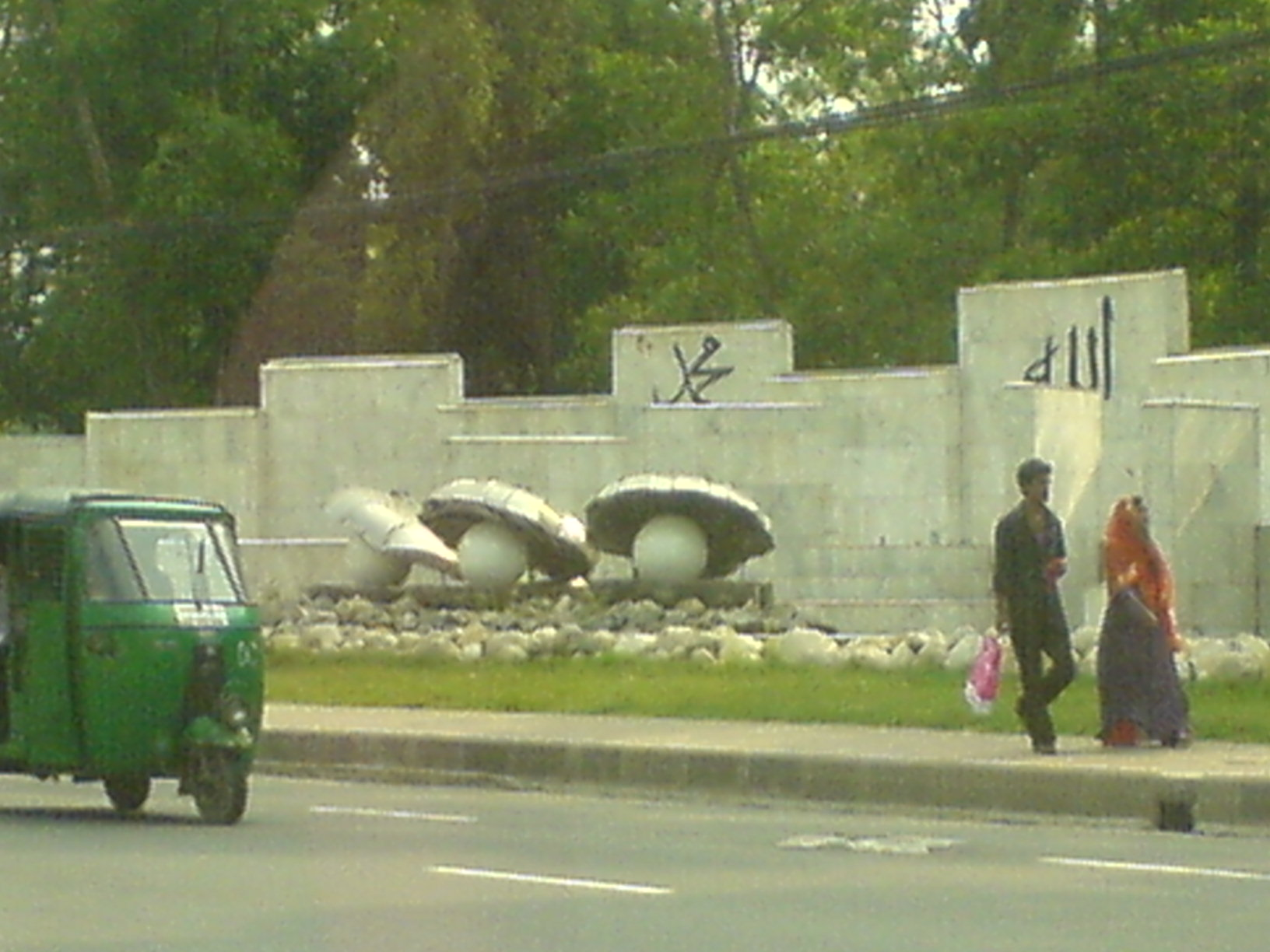 It's a monument in front of Prime Minister's Office in Dhaka, Bangladesh. It is called "Island of Pearls" or "Ratno Dip" in Bangla.